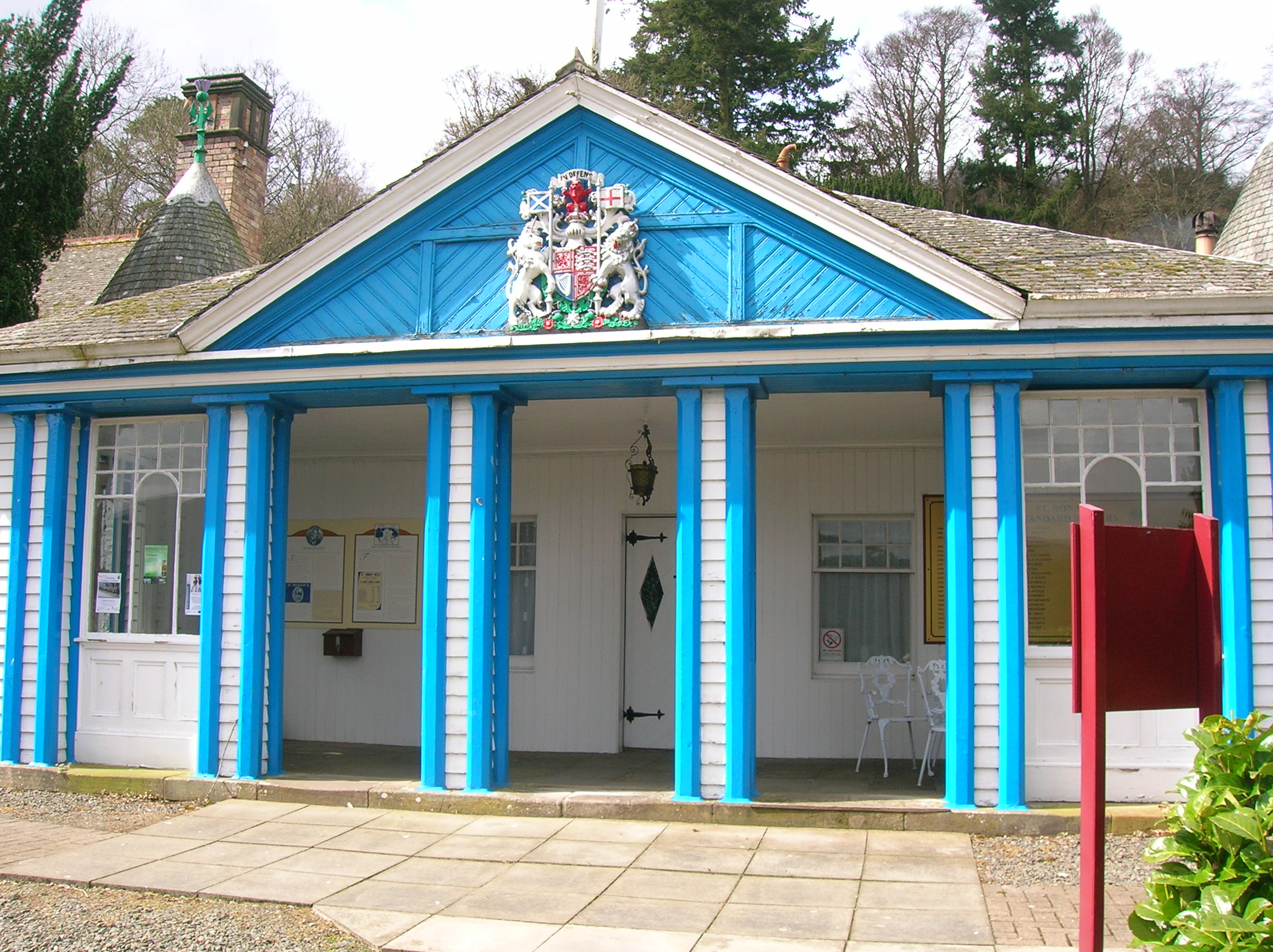 Saint Ronan's Wells at Innerleithen, Borders, Scotland